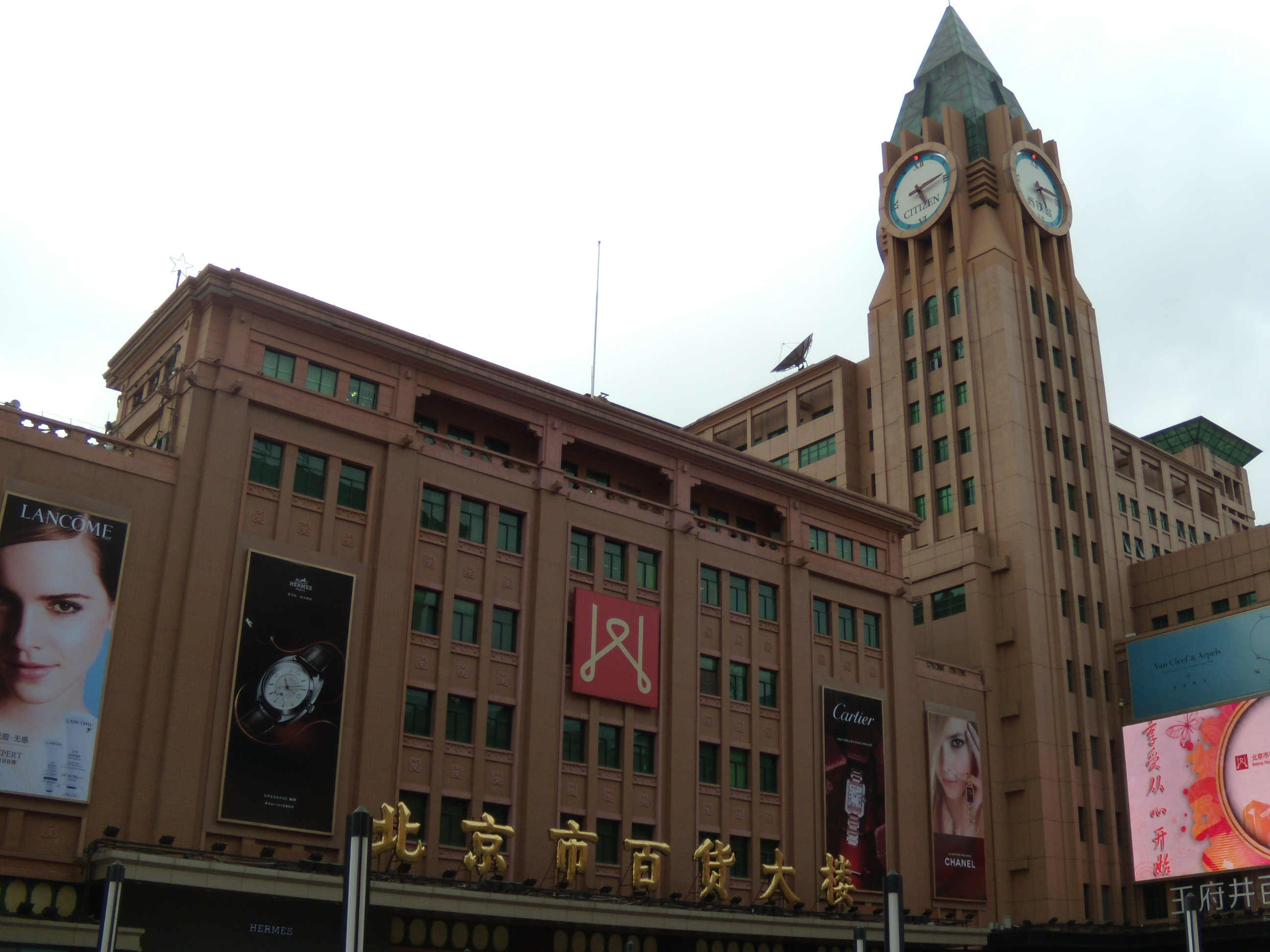 Wangfujing, Department store